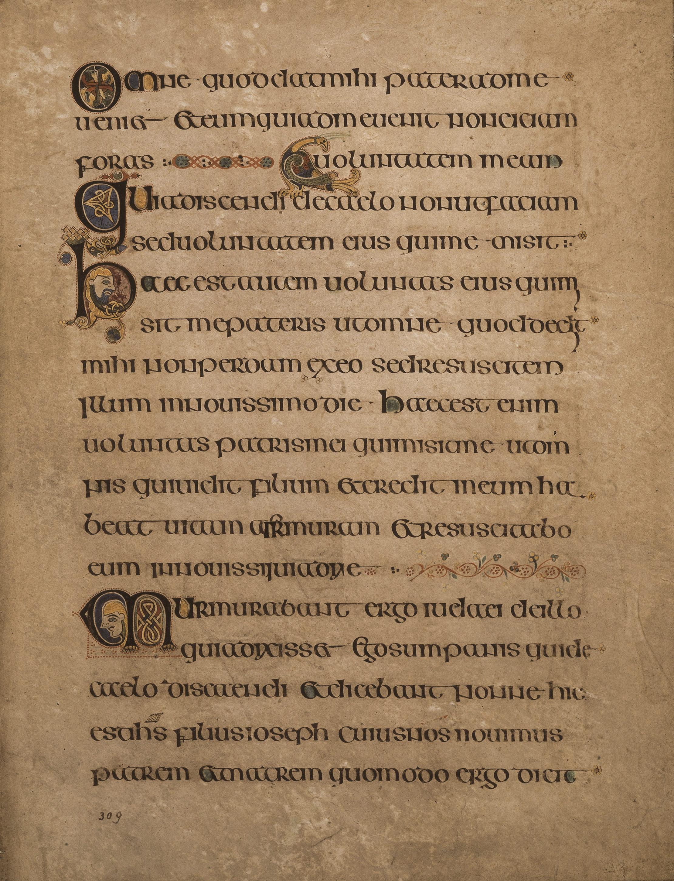 Image of page from the Book of Kells, a 1200 year old book in public domain. Category:Illuminated manuscript images